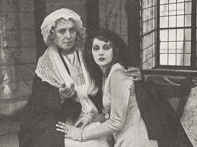 Gerda Lundequist (left) & Greta Garbo in Gösta Berlings saga - publicity still (cropped)